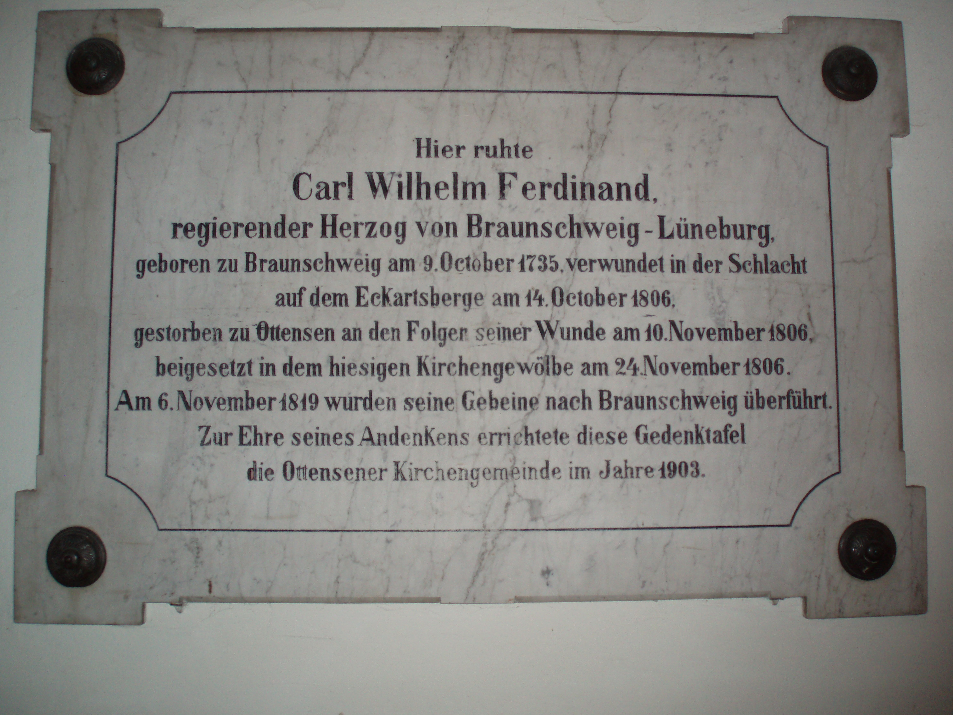 Memorial to Karl Wilhelm Ferdinand von Braunschweig-Wolfenbüttel in Christianskirche in Ottensen where his body was kept after his death on 10 November 1806 until it could be transferred and laid to rest in Brunswick cathedral in 1819.